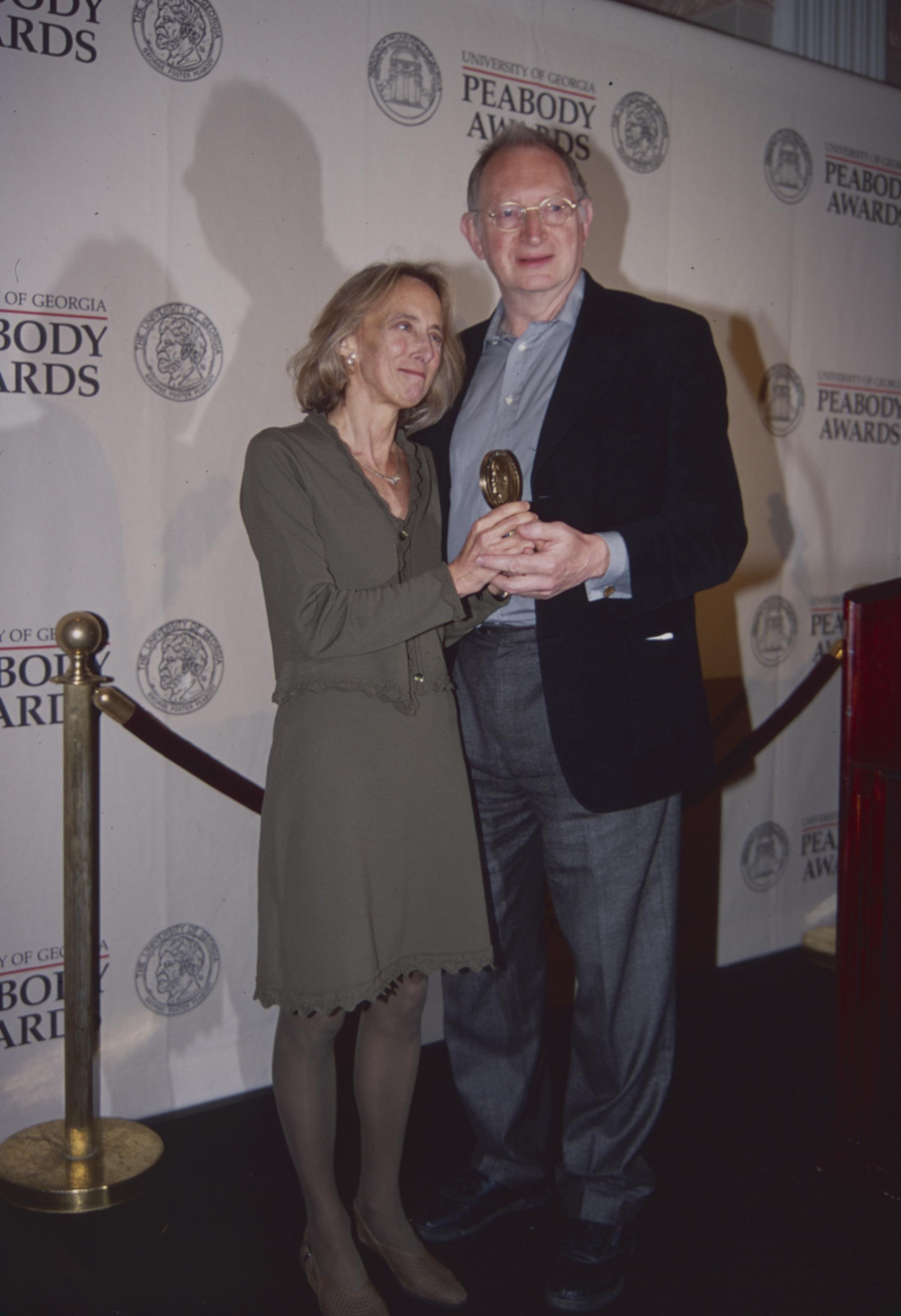 Photo by Patrick McMullan Norma Percy and Brian Lapping. The 59th Annual Peabody Awards. The Waldorf=Astoria, May 22, 2000